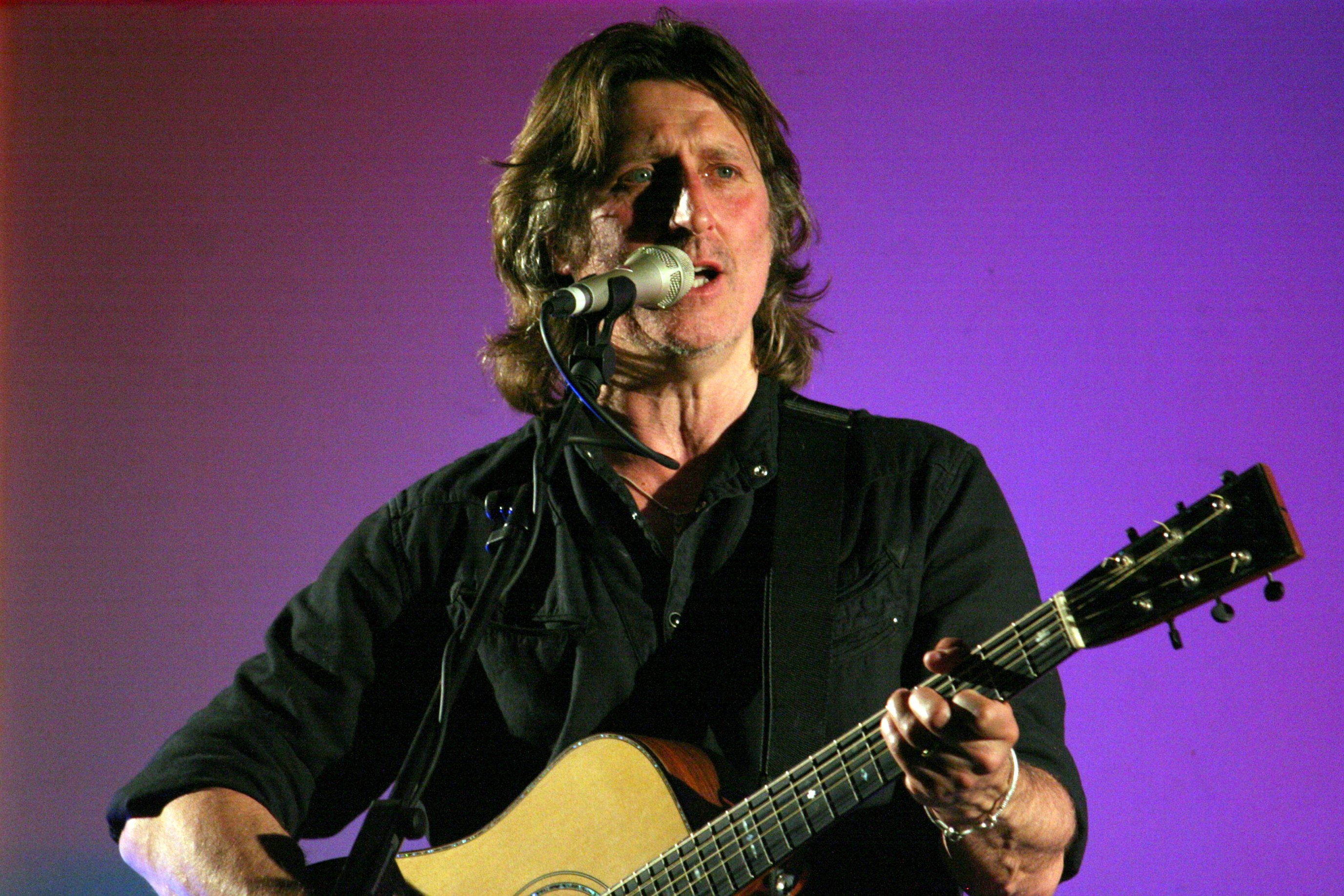 Steve Knightley performing with Show of Hands, Harberton Village Hall, Devon, May 20th 2009